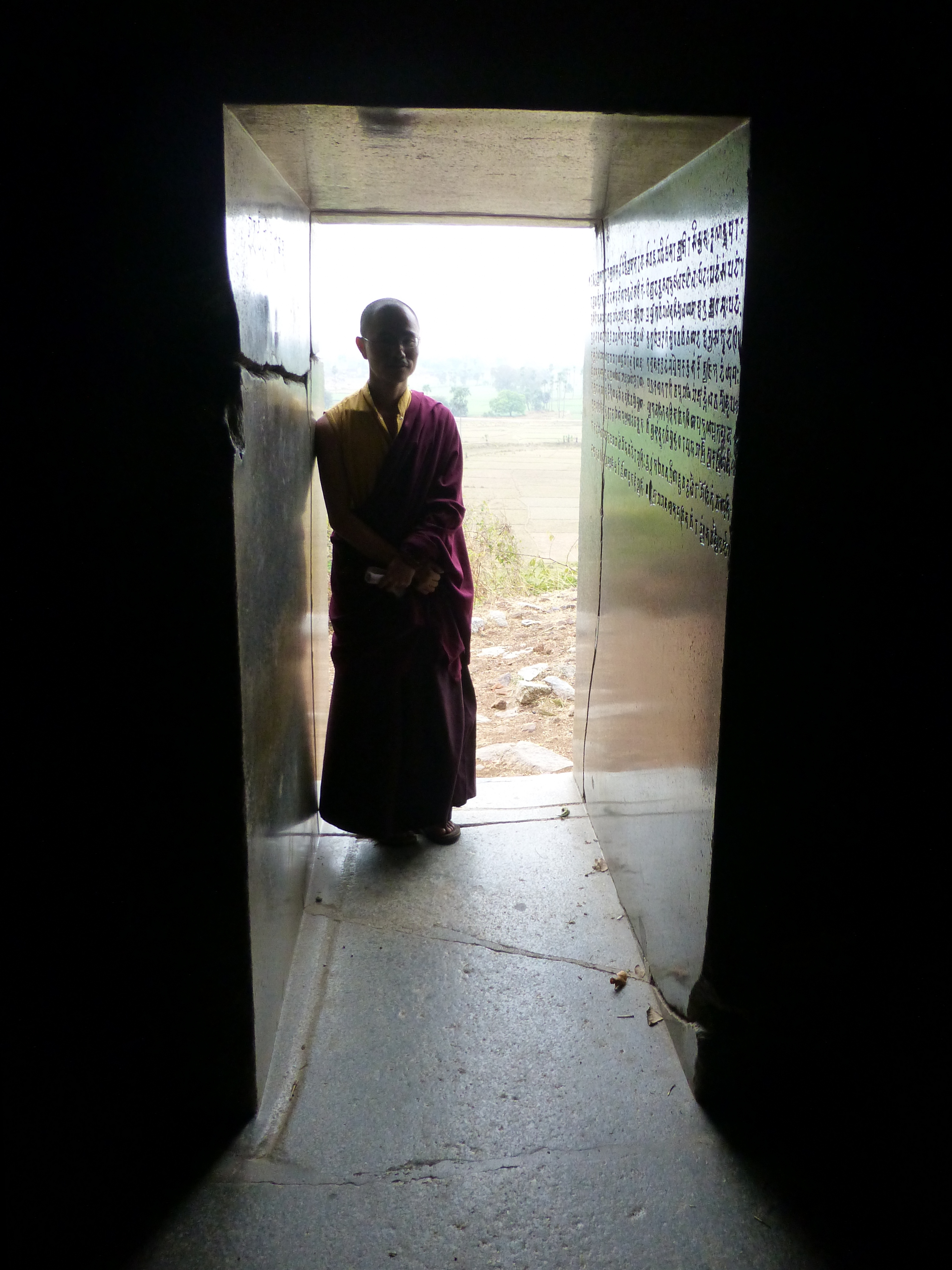 Extraction of the Antavarman inscription on the right wall of the corridor. 008 Cave Entrance with Dorjee at Barabar, Bihar Photograph from the Barabar Caves in Bihar taken by Anandajoti. WARNING: This is the entrance to the Gopika cave of the Nagarjuni Group in the Barabar Hills. To the right is an inscription of Antavarman, the Gopika Cave Inscription. On top of the entrance is an inscription of Dasaratha, grandson of Ashoka, dedicating the cave to the Ajivikas.~(The Roots of Indian Art, Gupta, p.192-193).पाटलिपुत्र (talk) 12:33, 6 May 2018 (UTC)